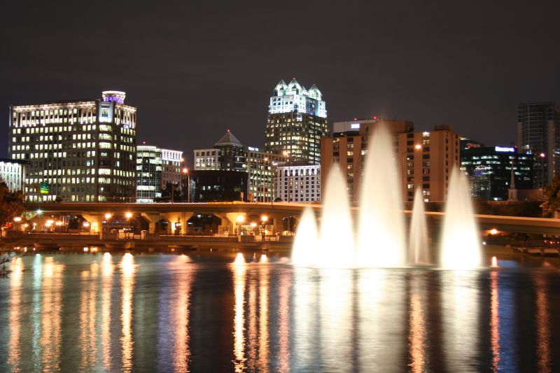 Lake Lucerne and the Downtown Orlando skyline. Taken 12/8/06.